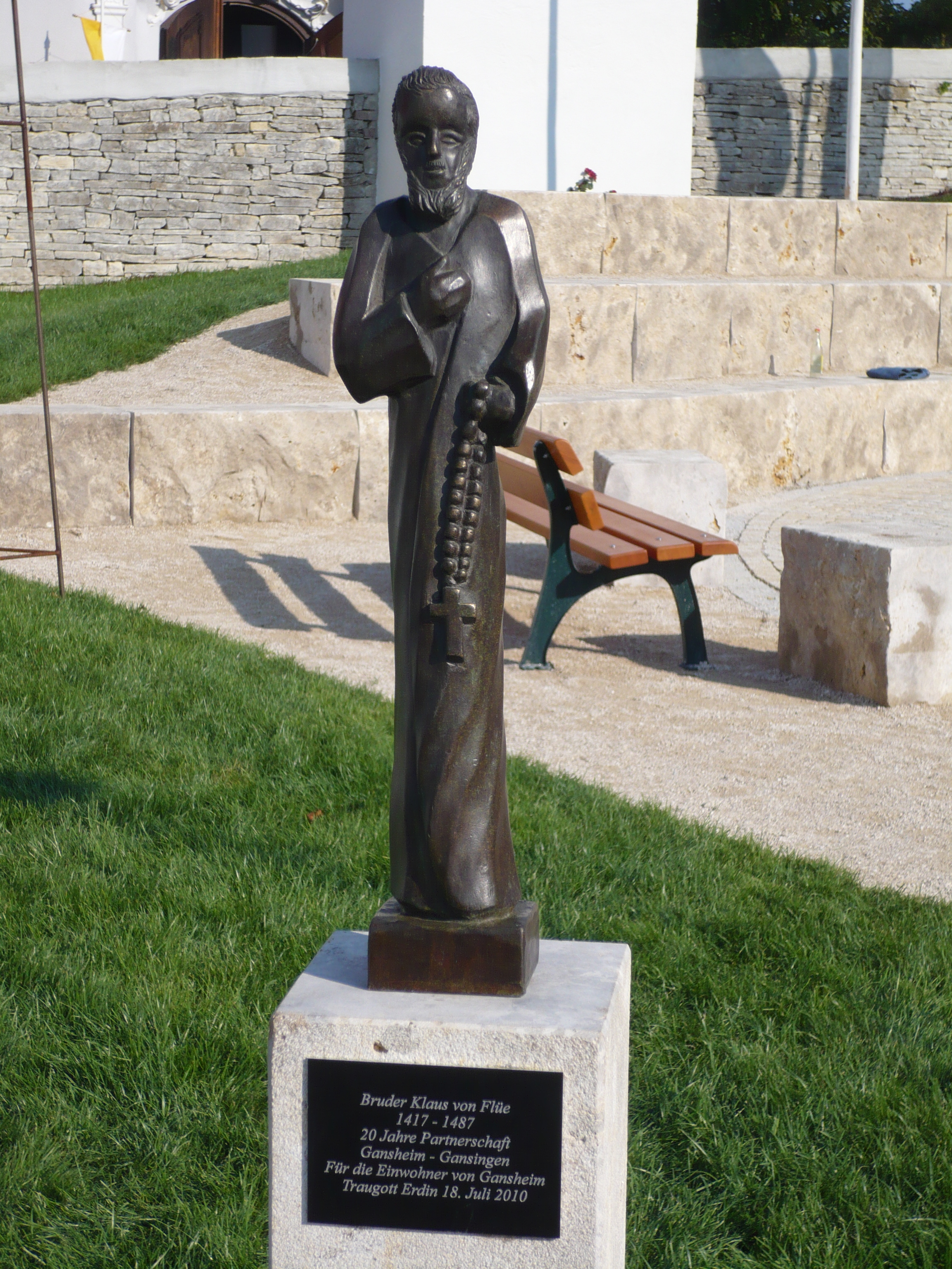 Statue at the village square in Gansheim.